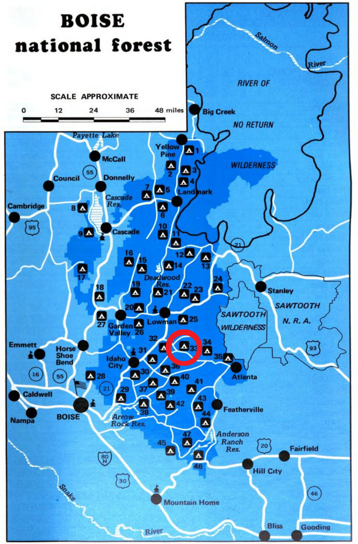 Map of Boise National Forest campgrounds with Robert E. Lee Campground highlighted. Campsite #33 is indexed as Robert E. Lee Campground in the original Forest Service document.